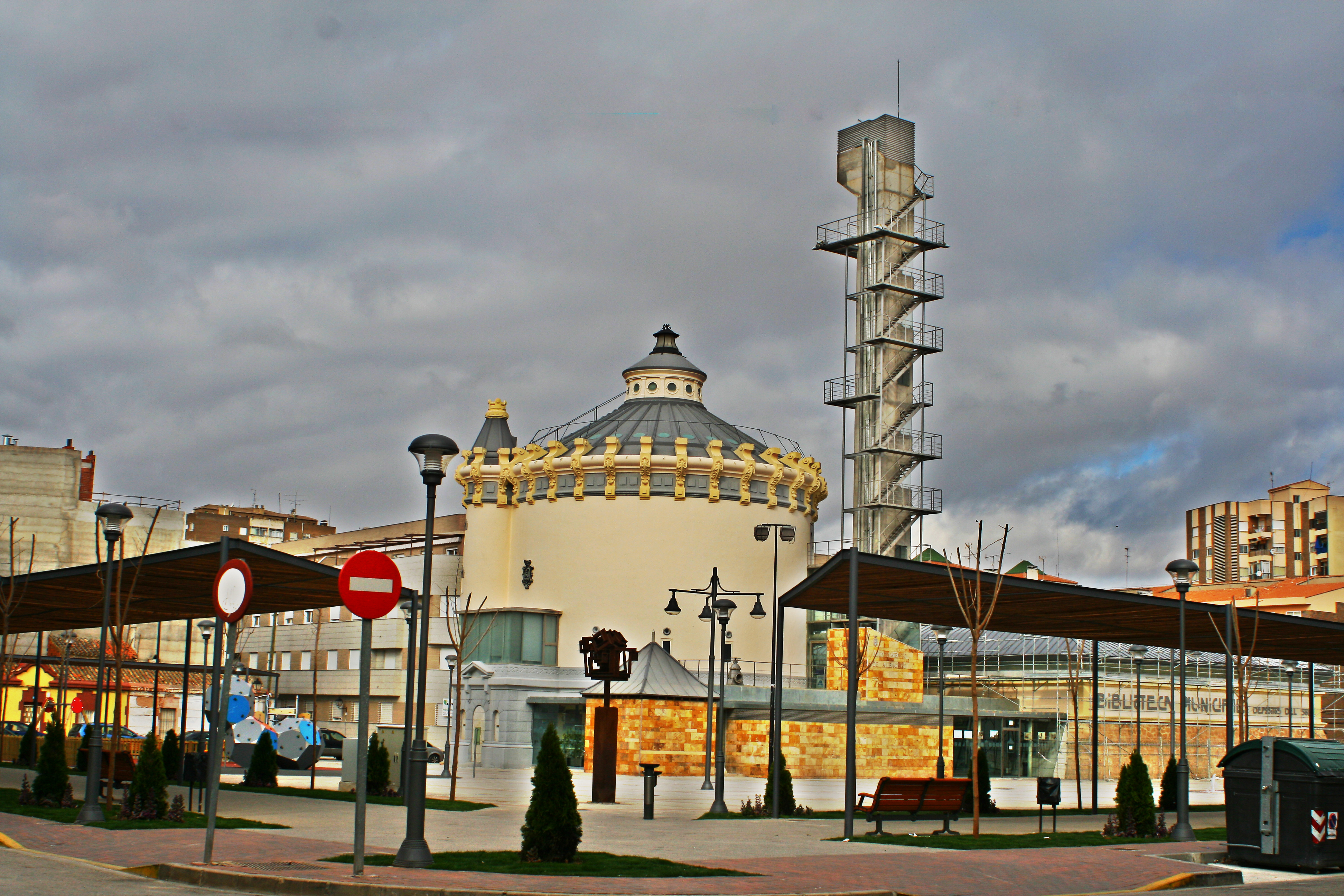 Water Tank of the Sol Albacete